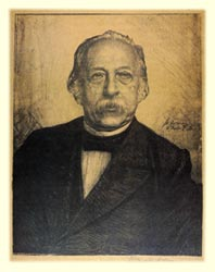 Hanns Fechner (1860–1931): Portrait Theodor Fontane, Lithograph, 1896